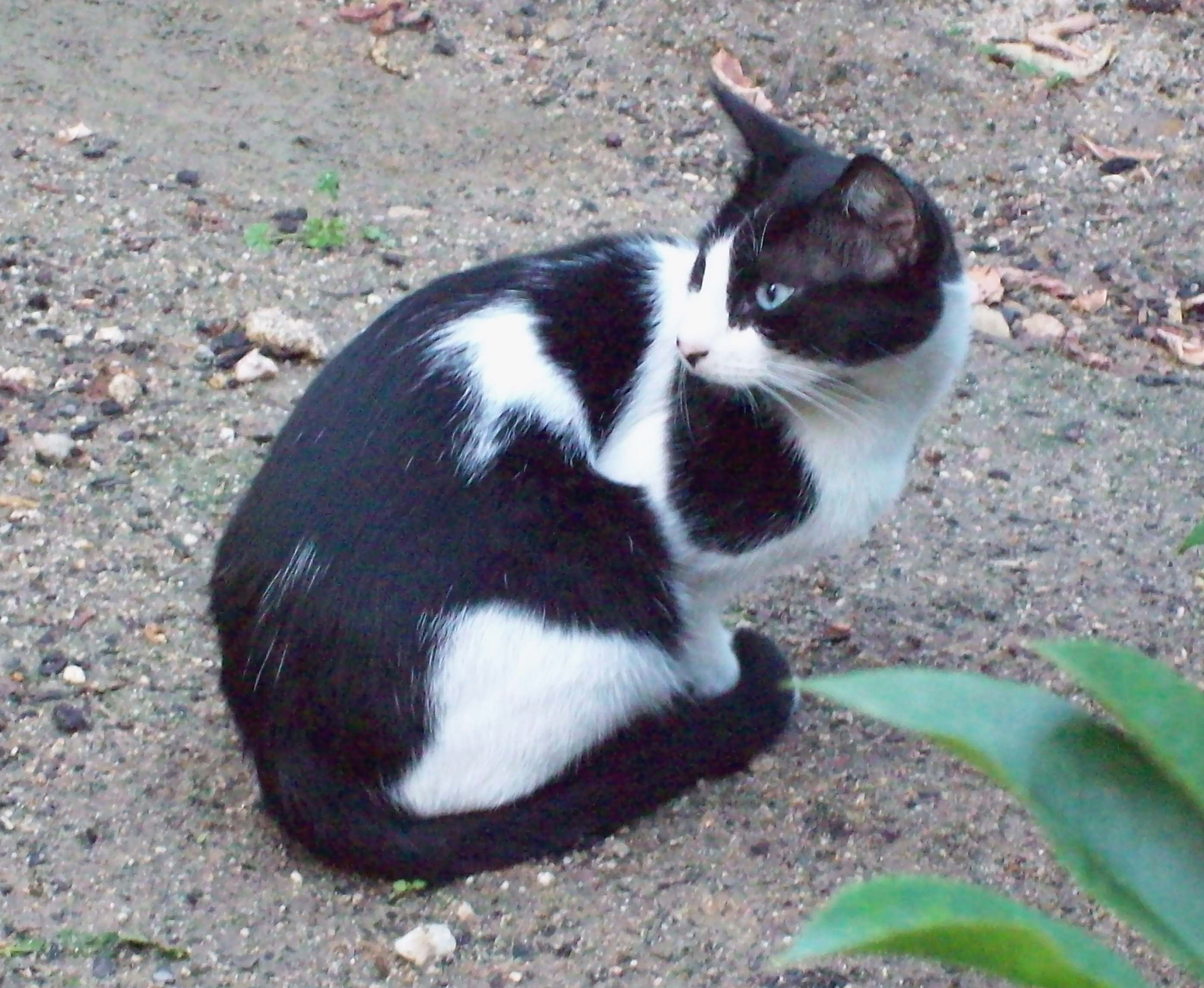 A street cat at the courtyard of the former Homeopathic Institute and St. Joseph Hospital in Madrid (Spain).